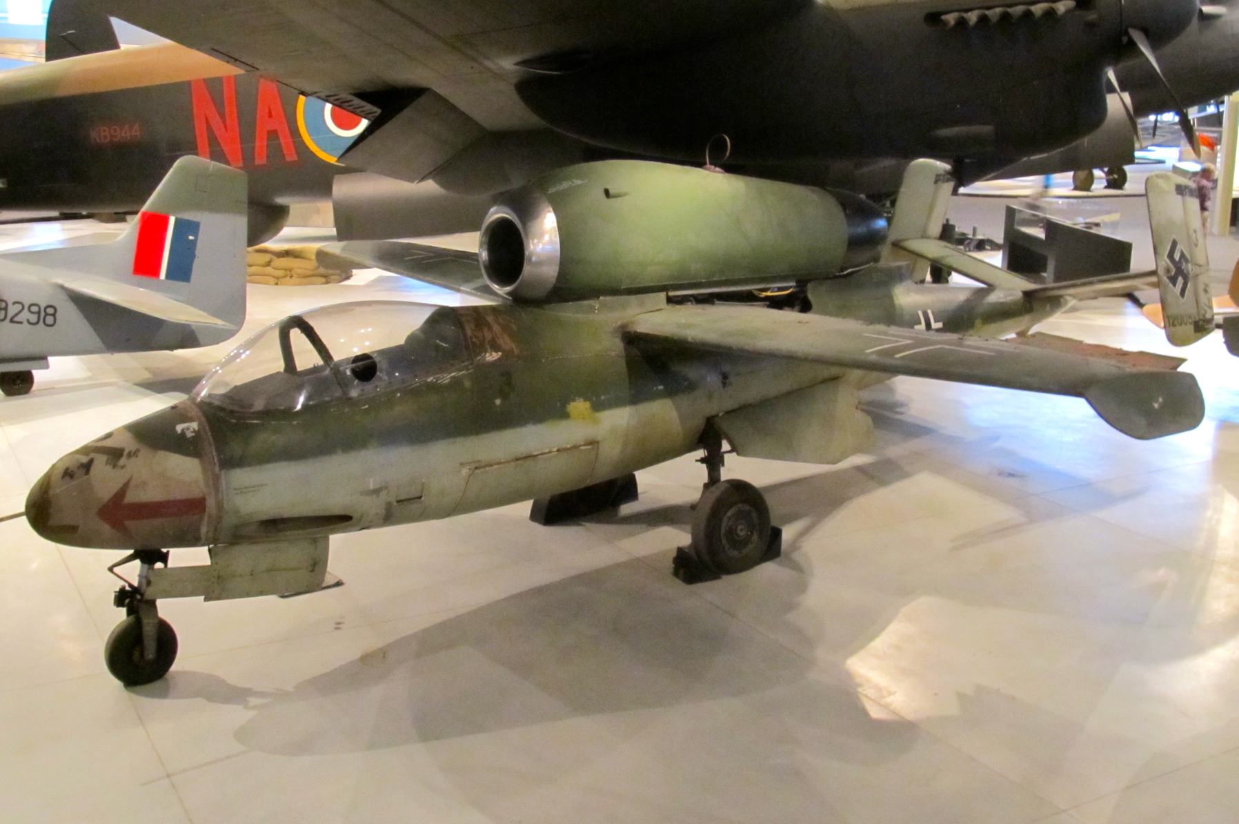 Heinkel He-162 at the Canadian Air and Space Museum, Ottawa.